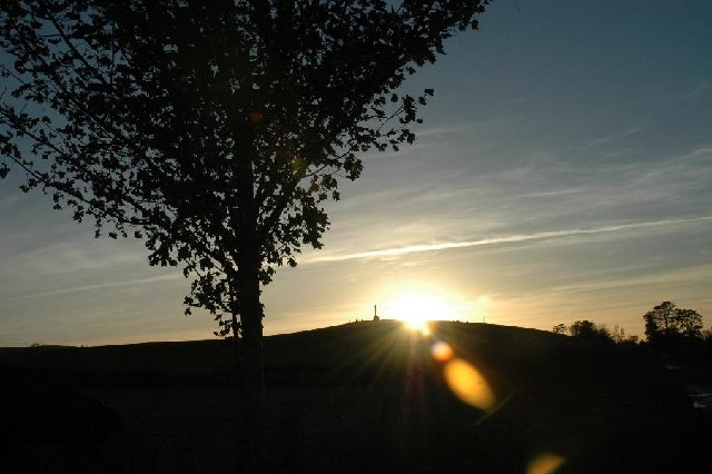 Flodden Monument, Branxton.